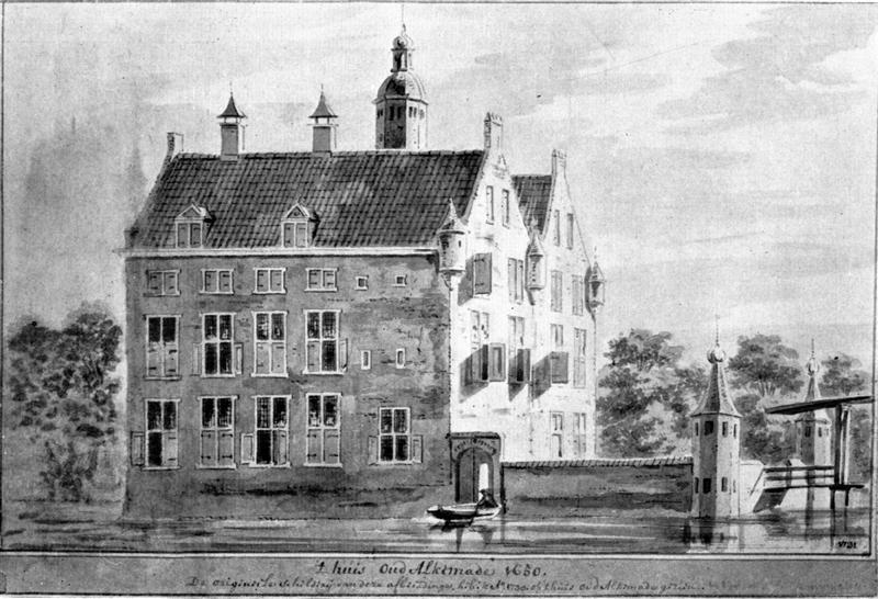 estate (oud-) Alkemade